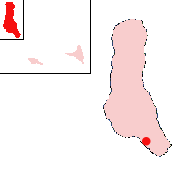 Dembéni, Grande Comore, Comoros Location Map; created with the GIMP. Made by User:Acntx.